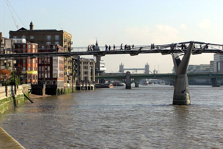 The London Millennium Bridge spanning the River Thames between Tate Modern gallery and St. Pauls Cathedral. View is towards the east. Taken by Adrian Pingstone in November 2004 and released to the public domain.